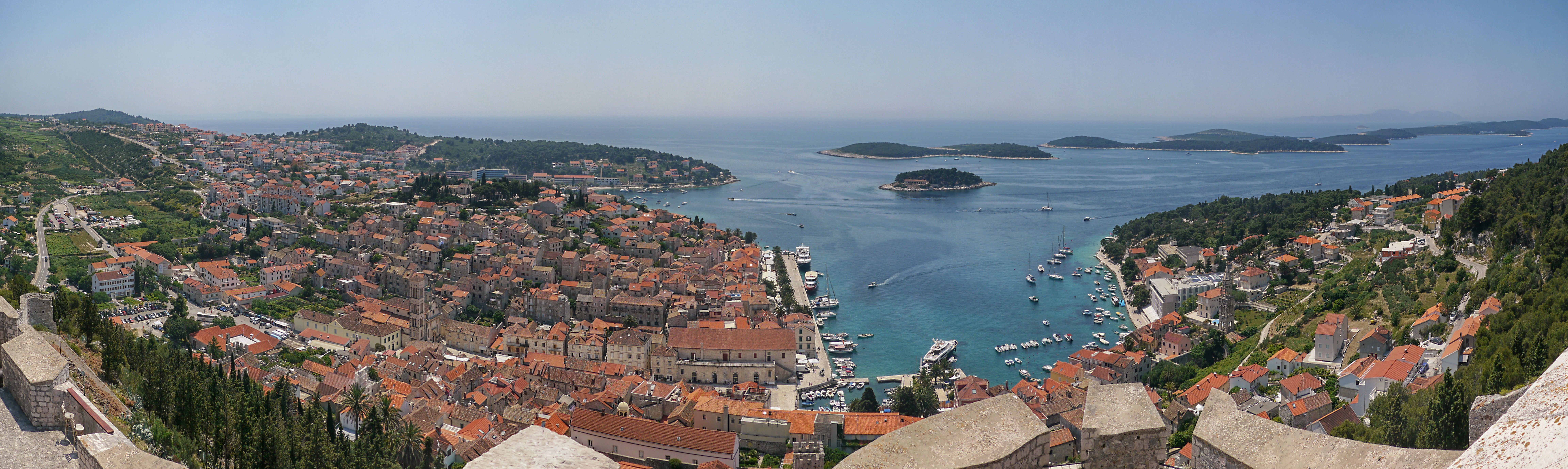 island of hvar panorama 2011